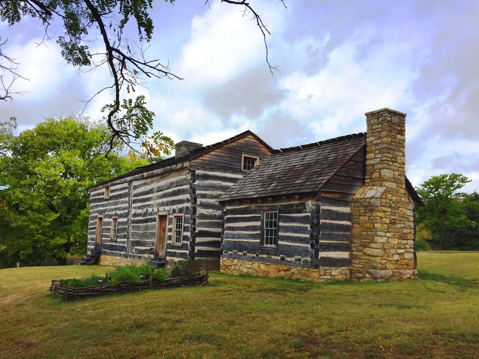 Photo of the reconstructed Ft. Zumwalt by John Foster